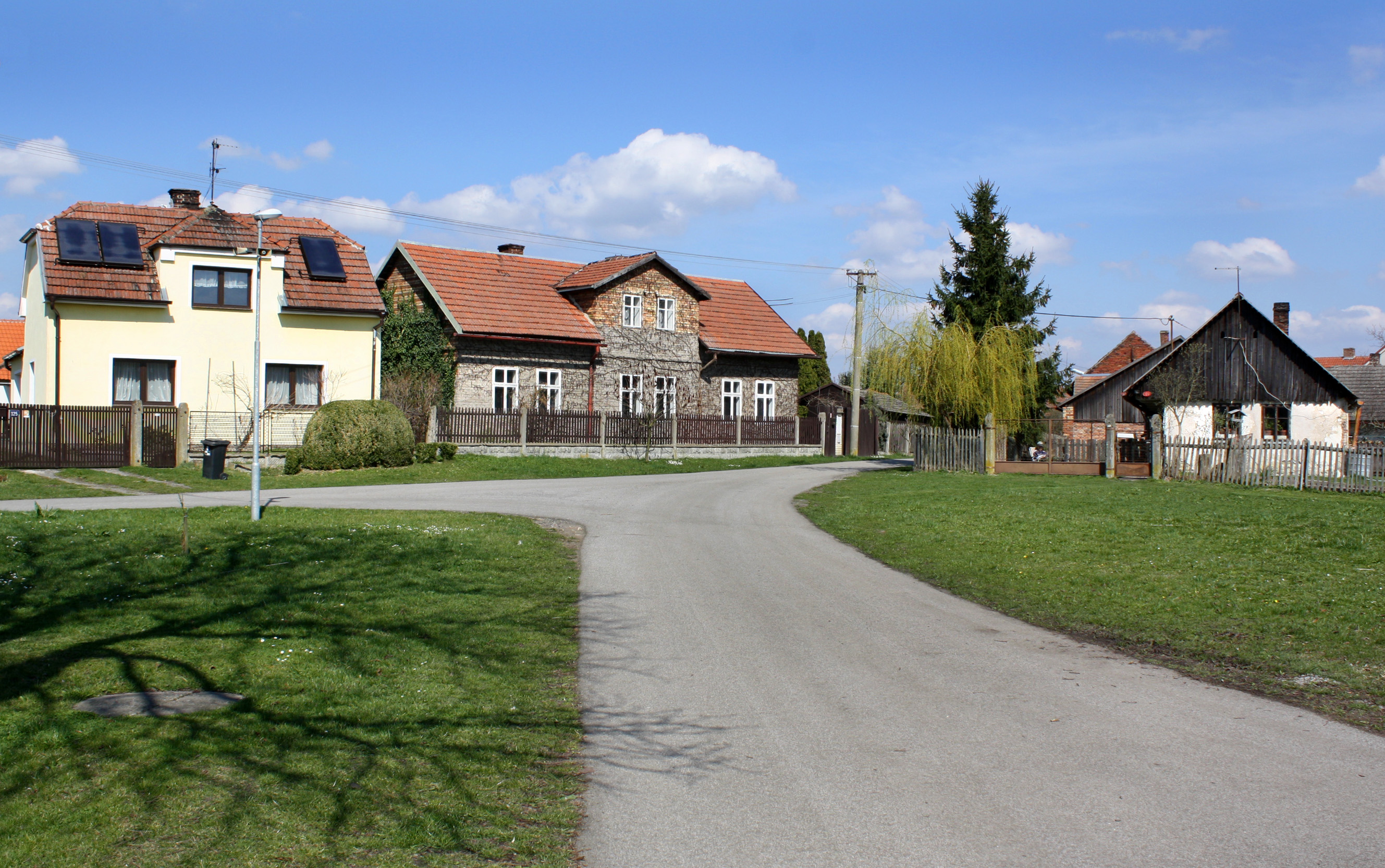 North-west part of Kněžice, Czech Republic